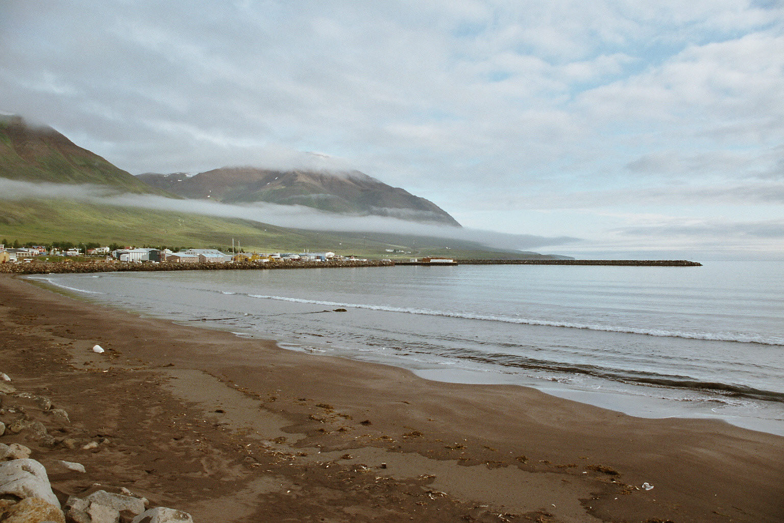 Dalvík from an eastern beach, en 2005